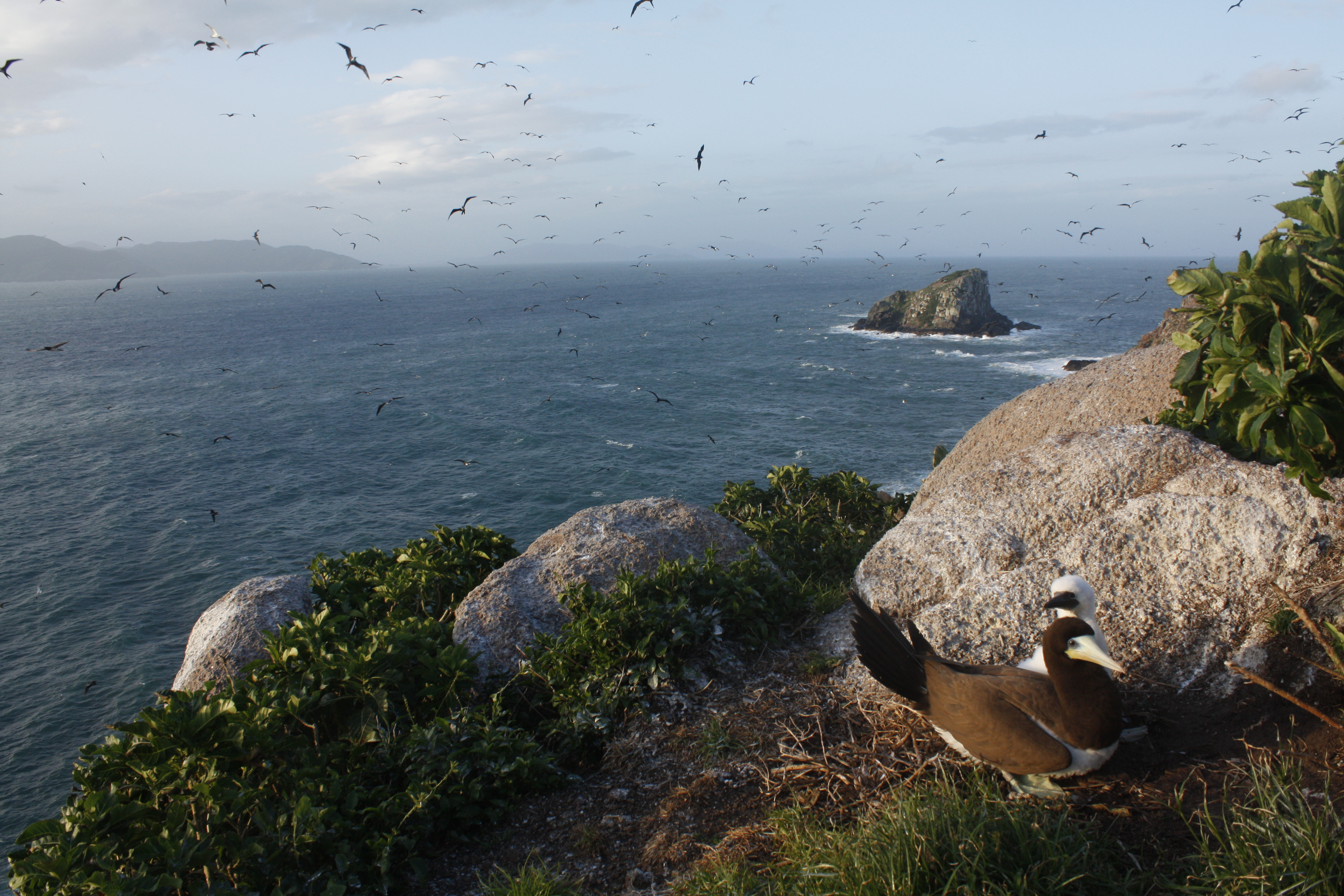 Islands of Moleques do Sul. An small archipelago in southern Brazil, in Santa Catarina state. Part of two protected areas, the 'Parque Estadual da Serra do Tabuleiro' and the protected are named as 'APA da Baleia Franca'.